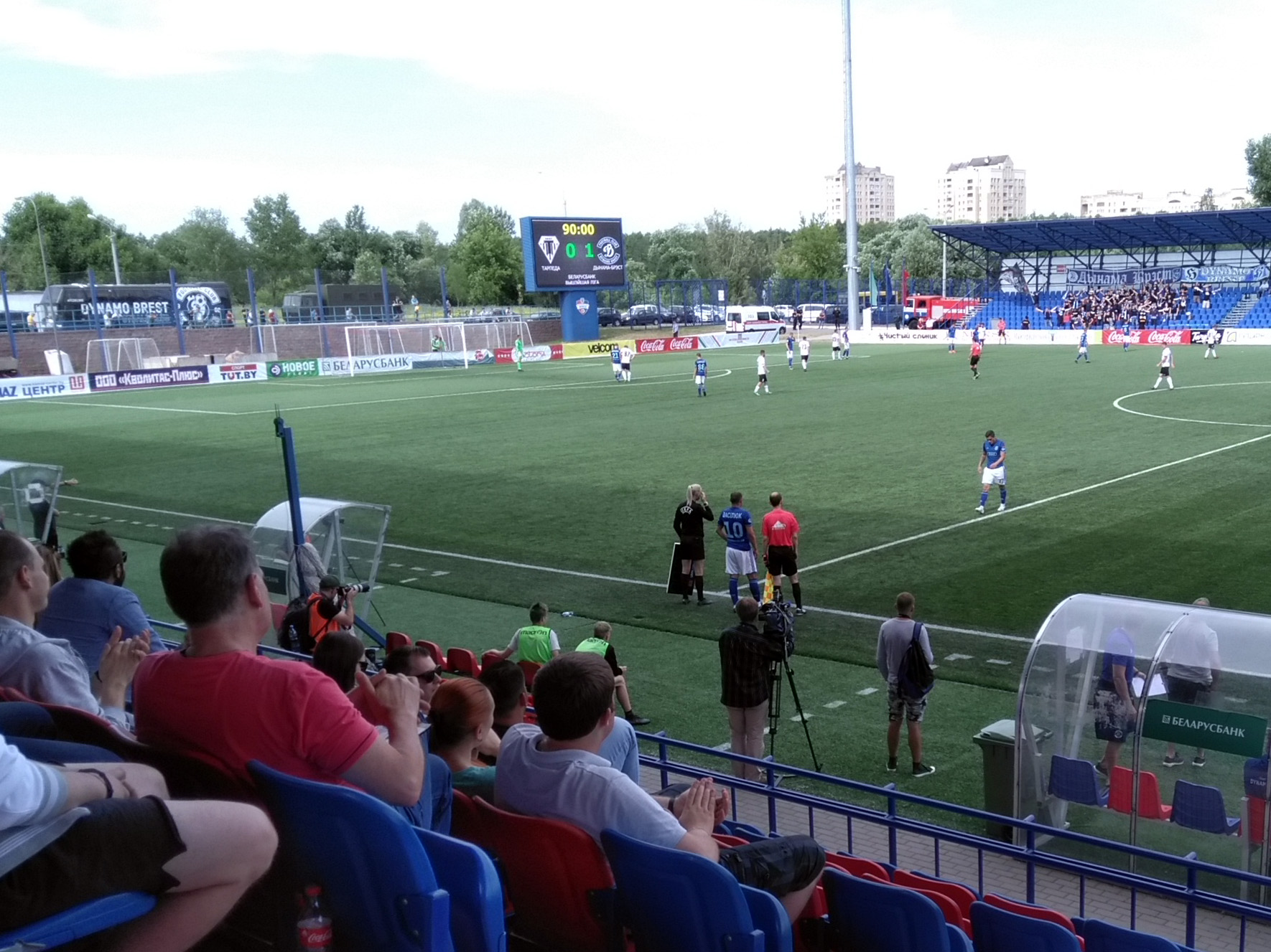 2018 Belarusian Premier League. Torpedo (Tarpeda) Minsk vs Dynamo Brest, 2 June 2018. Stadium "Minsk".